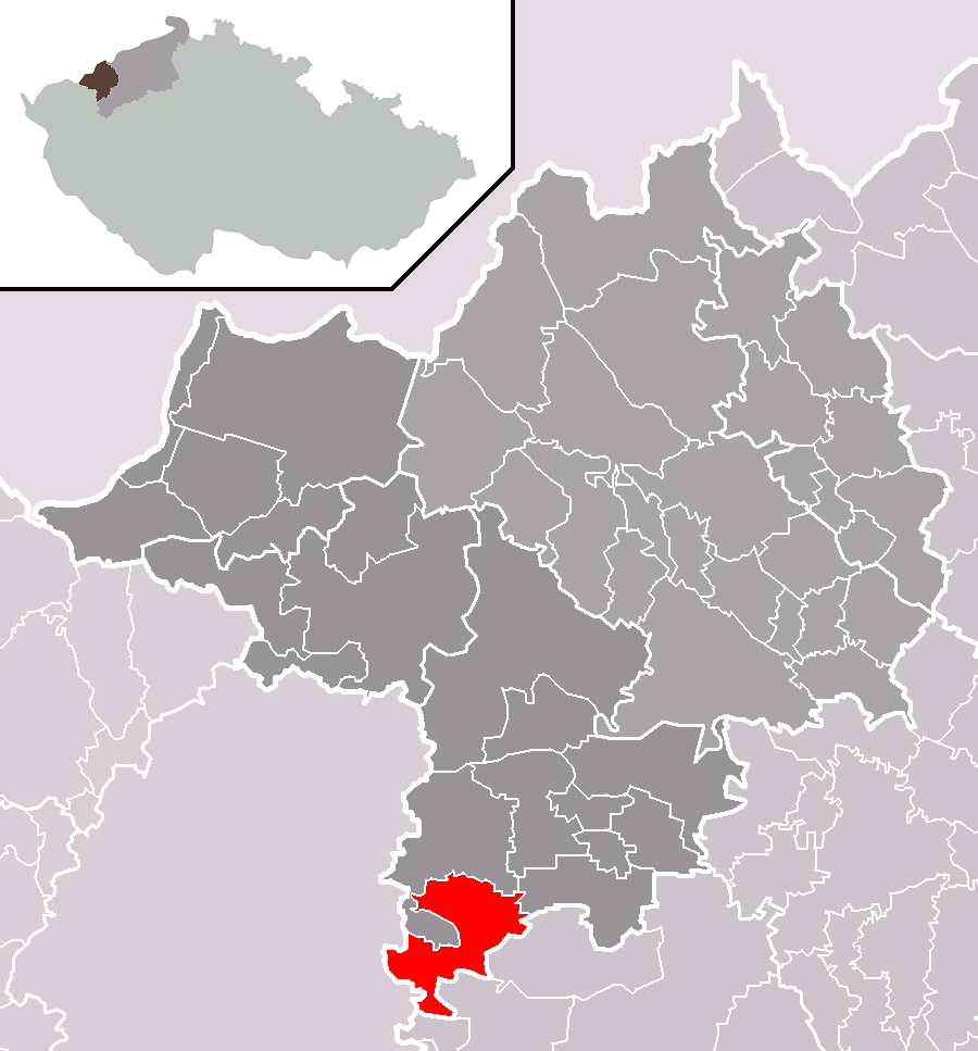 Location of Mašťov town within Chomutov District and administrative area of Kadaň as a Municipality with Extended Competence.